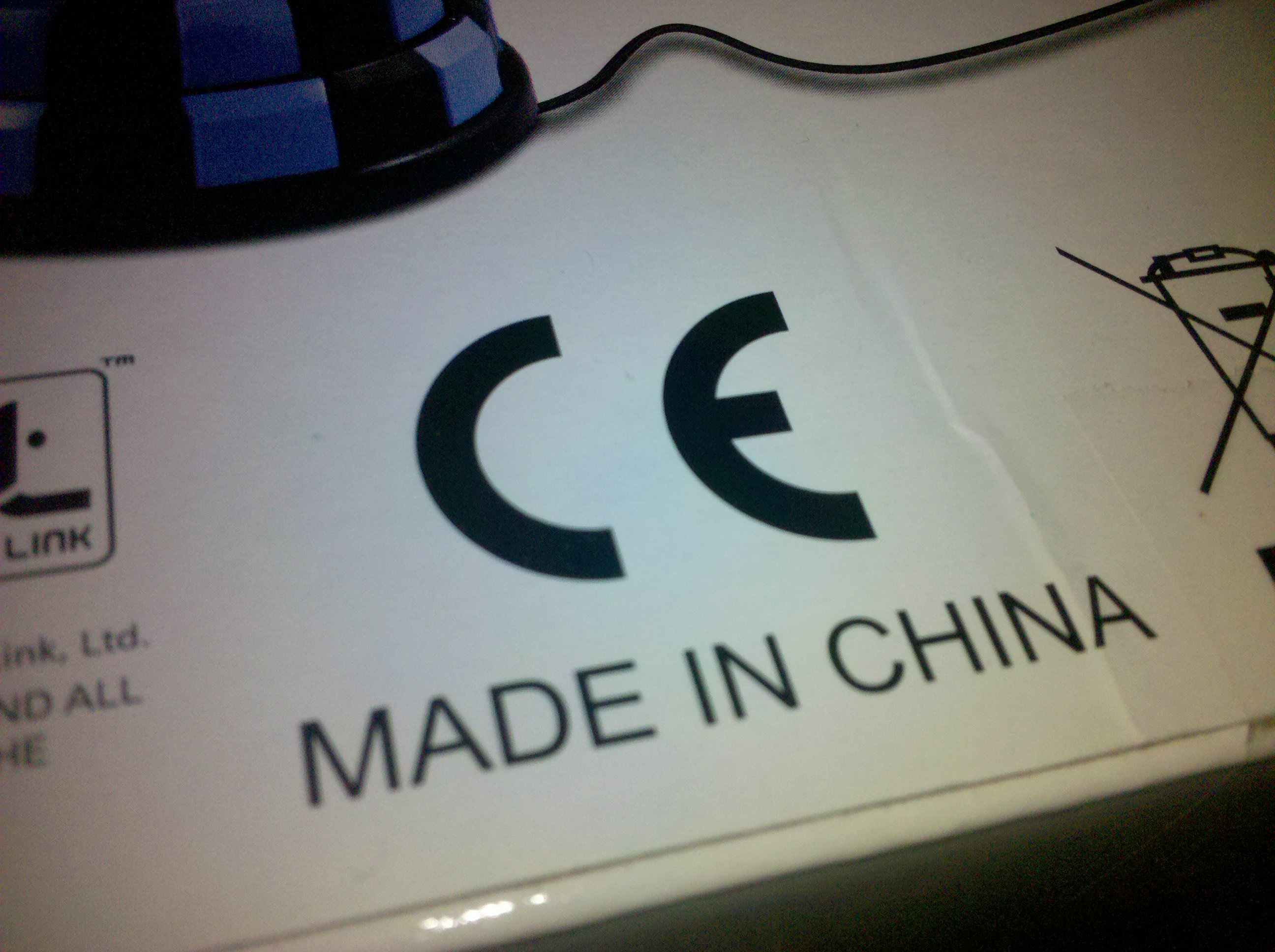 Proximal location of CE Mark and "Made in China" mark in context of product packaging. Such placement may contribute to confusion regarding the idea that the CE mark stands for China Export.